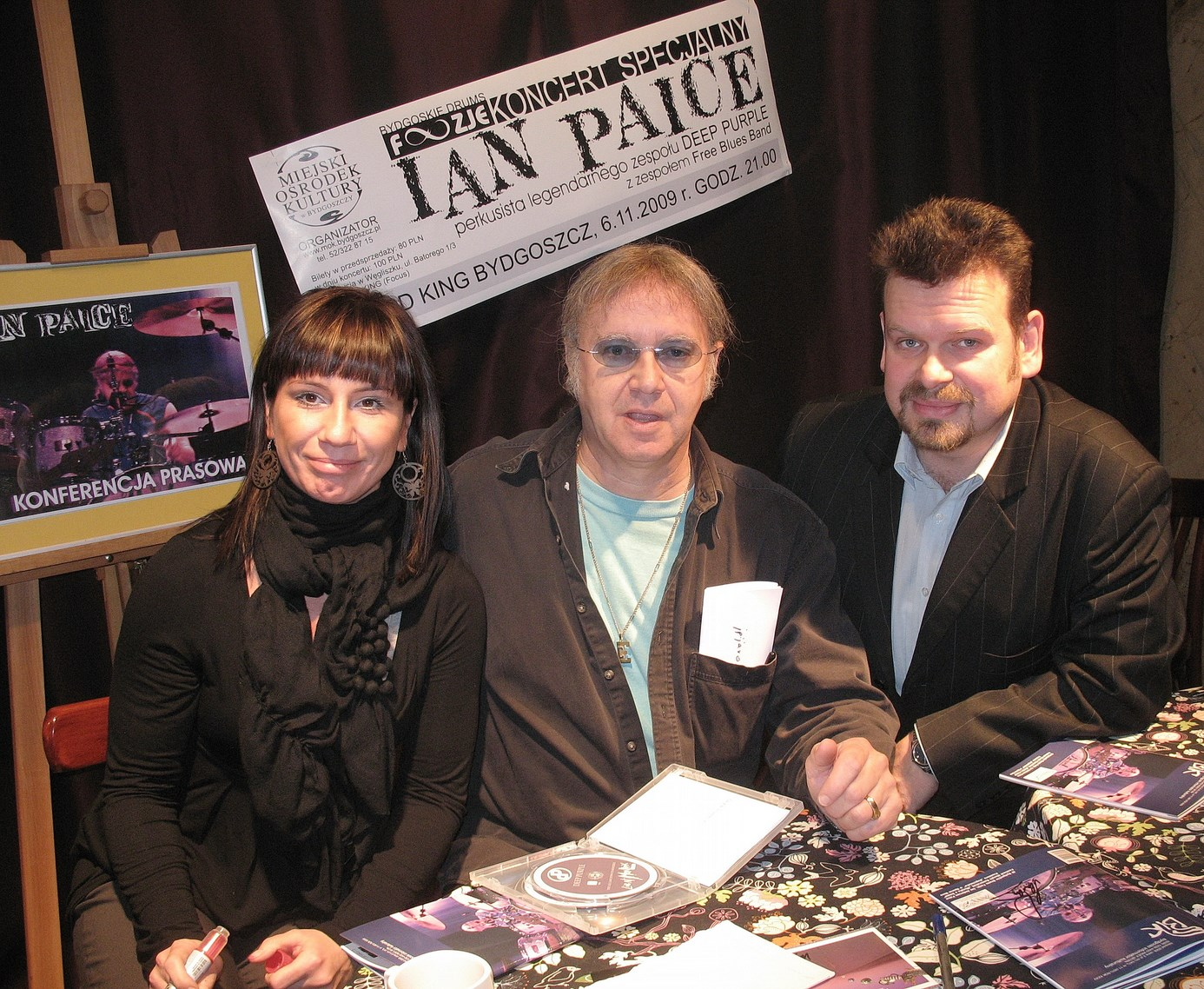 Meeting in Węgliszek (Bydgoszcz) K. Fojuth, I. Paice, J. Pijarowski (2009)